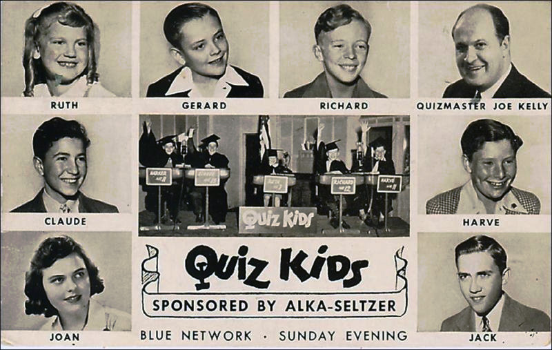 Promotional postcard for Quiz Kids radio show. Copyright details This promotional postcard was sent to listeners of theQuiz Kids radio show in the 1940s. The timeframe of this postcard is most likely 1942-1945. NBC separated its networks in 1942 due to antitrust issues and this became known as the Blue Network. The Blue Network was sold in 1945 and eventually became ABC. There are no copyright marks on either side, as can be seen in the photo links. It is well within the free license timeframe. It was created for distribution to the radio show's listeners to induce regular listening and also to promote Alka-Seltzer, the show's sponsor. This is a response card sent to those who sent questions in to be used on the radio program. Those whose questions were selected for use on the show received a Zenith portable radio as a prize.